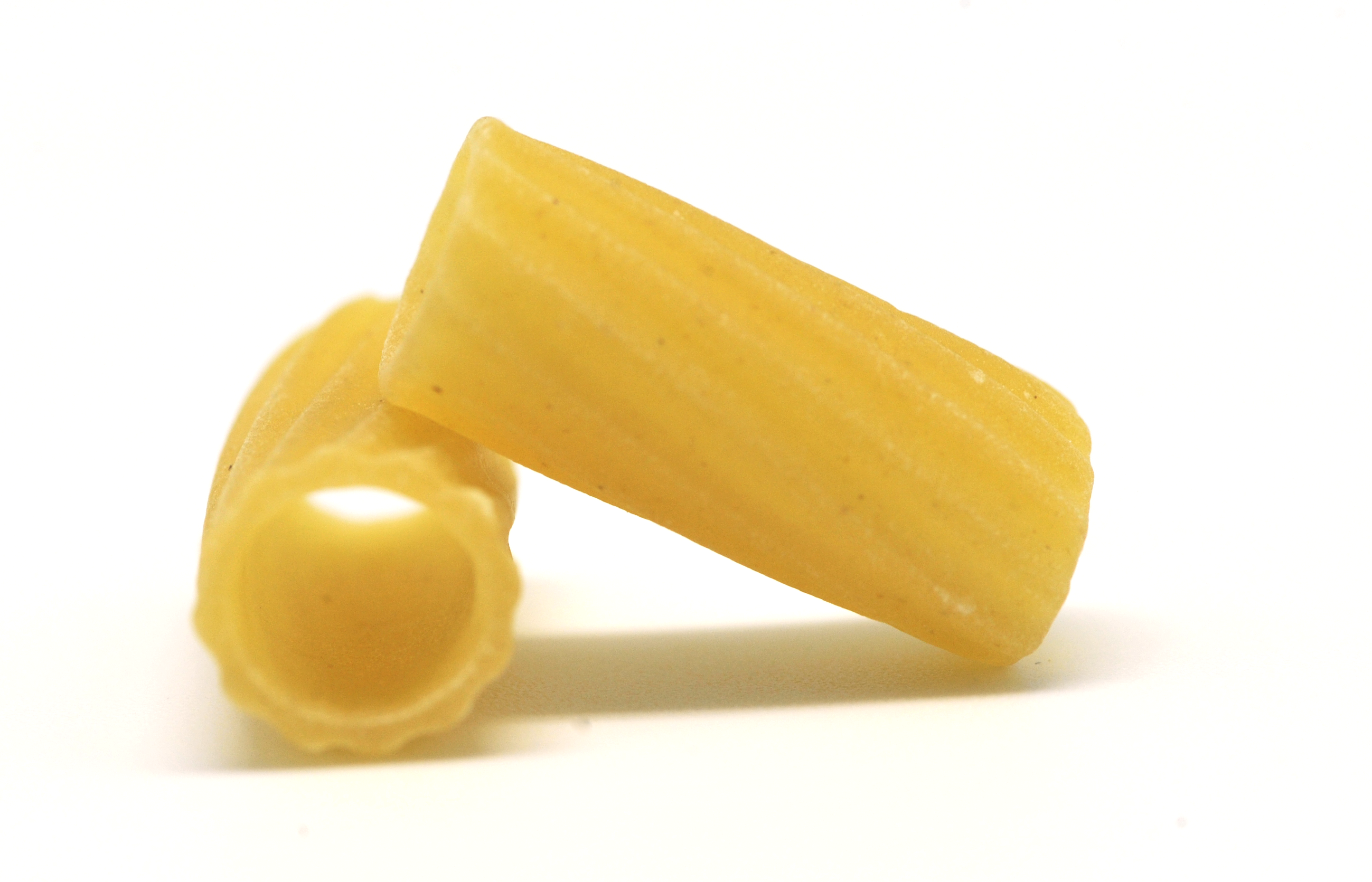 A closeup image of tortiglioni